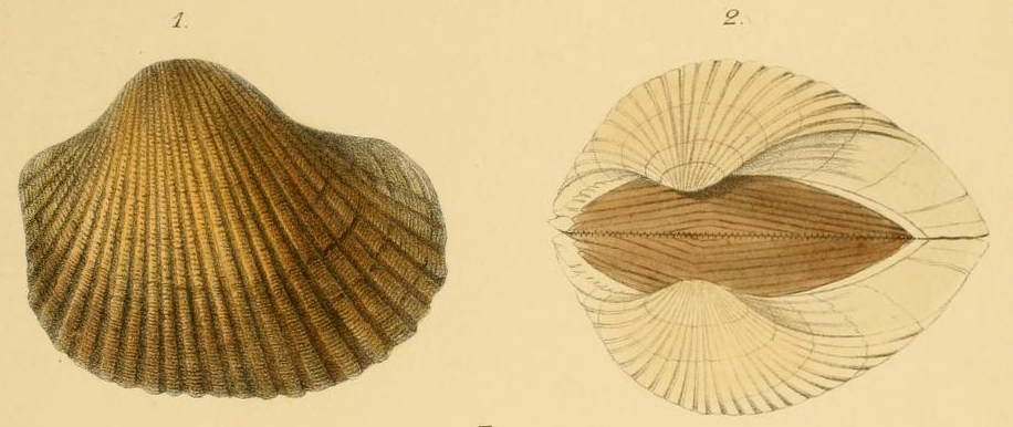 Anadara corbuloides (Monterosato, 1878), Arcidae, Bivalvia, Napoli, Italy, from Kobelt 1891 pl. 23 figs. 1 and 2